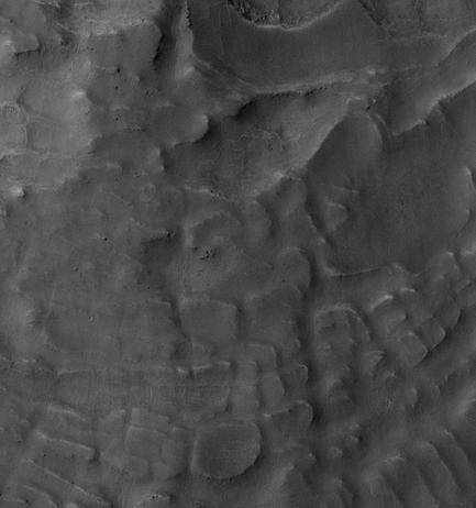 Landforms inside rim of Barnard crater, as seen by hirise. The location is 60.3 degrees south latitude and 298.1 degrees west longitude. Image was taken by the Mars Reconnaissance Orbiter's HiRISE. The HiRISE camera was built by Ball Aerospace and Technology orporation and is operated by the University of Arizona. Image courtesy NASA/JPL/University of Arizona.